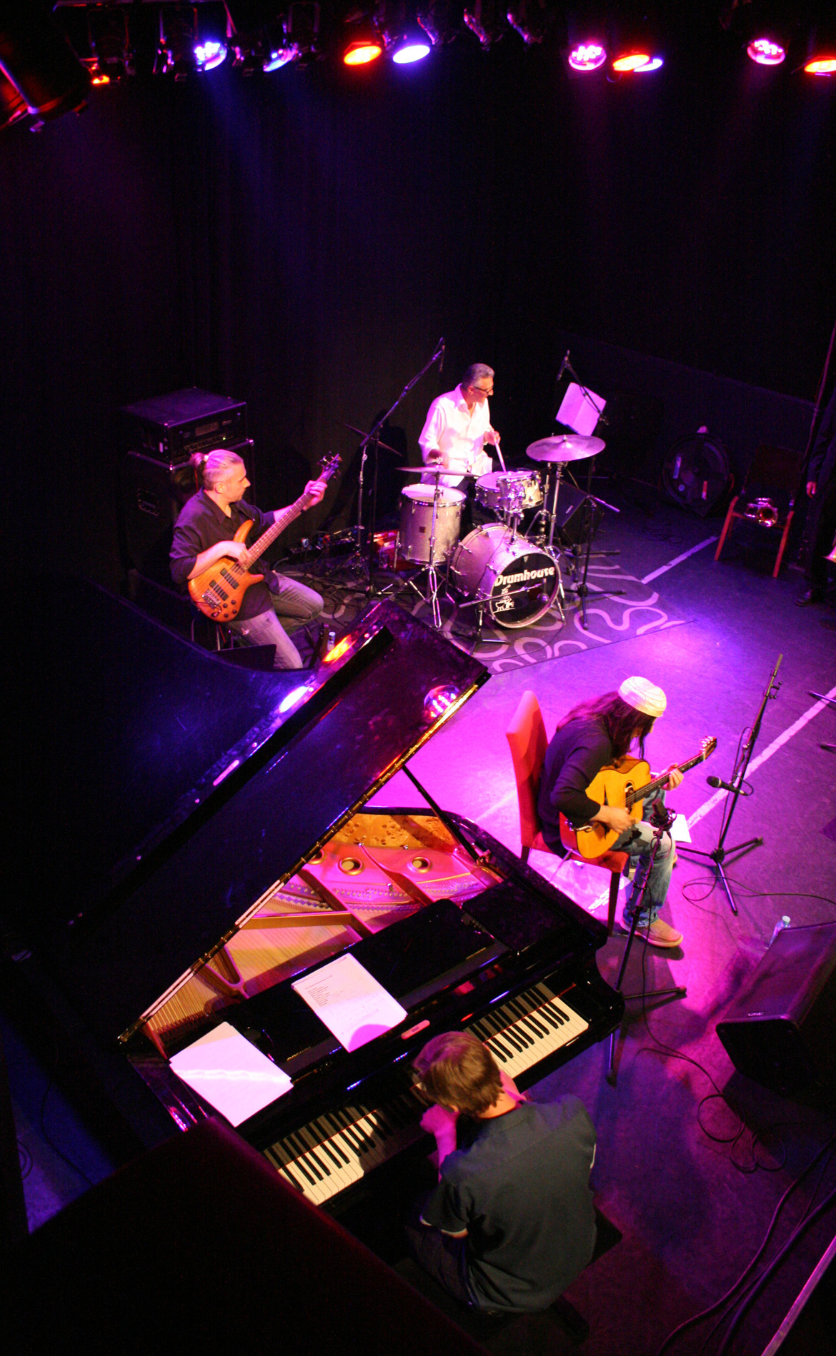 Concert of the Harri Stojka Modern Jazz Band at the jazz club Porgy & Bess in Vienna (Harri Stojka: git, Geri Schuller: p, Werner Feldgrill: b, Heimo Wiederhofer: dr)